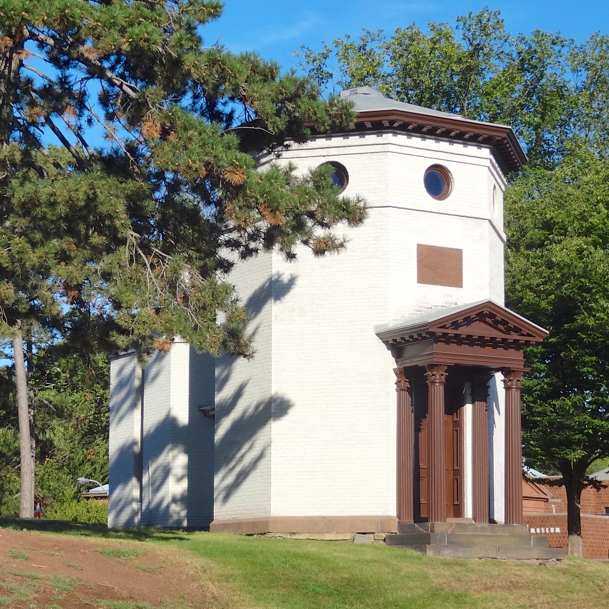 Queens Campus, Rutgers University, Bounded by College Ave. and George, Hamilton, and Somerset Sts. New Brunswick